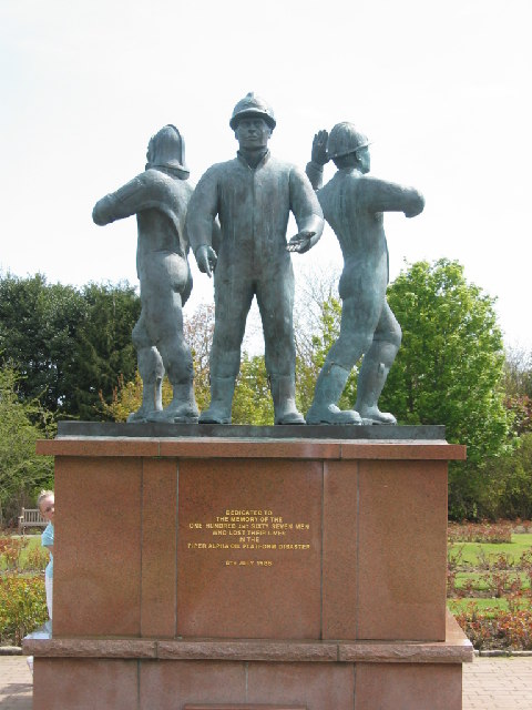 Memorial in Hazlehead Park, Aberdeen to the victims of the 1988 Piper Alpha disaster.